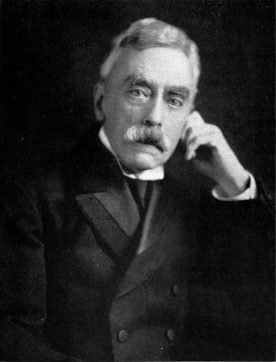 William Gilson Farlow (1844–1919)